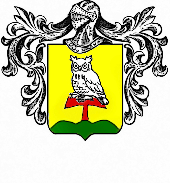 Huwyler Huwiler Coat of Arms or Wappen based on Swiss Heraldic information.